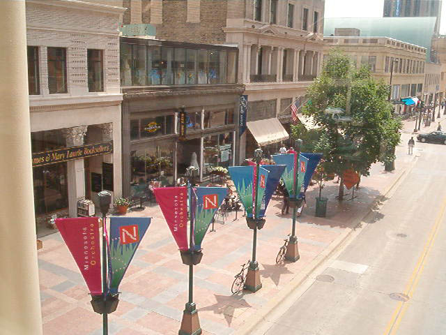 Nicollet Mall in Minneapolis, seen through a skyway window. Street banners in view made by Banner Creations, Inc.